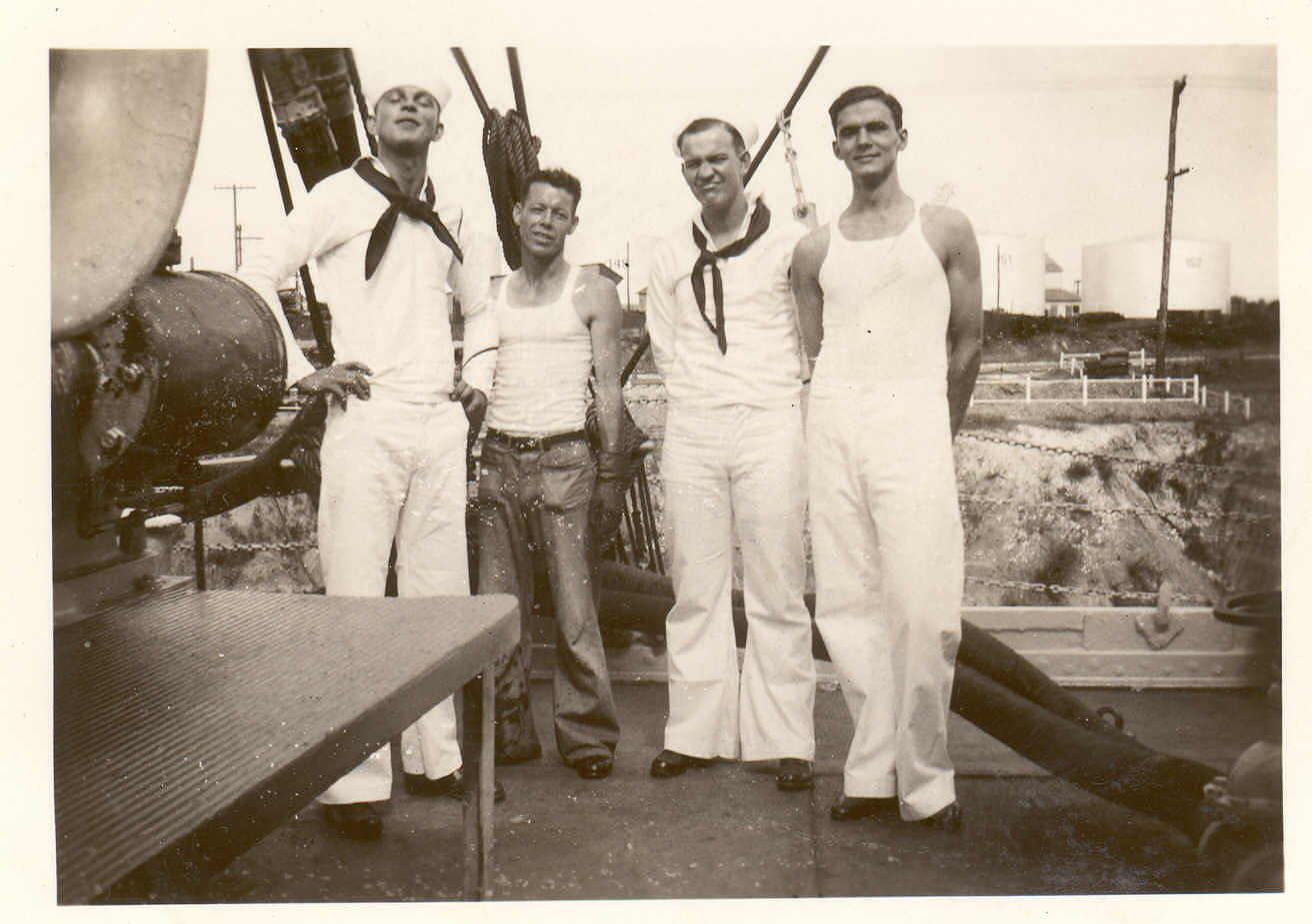 Years after my step-grandfather Jerry Southwick died, I found a bunch of his old Navy pictures in a box. They are really cool, and frankly a bit homoerotic. 1934